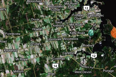 Ariel view of Roxbury, Prince Edward Island